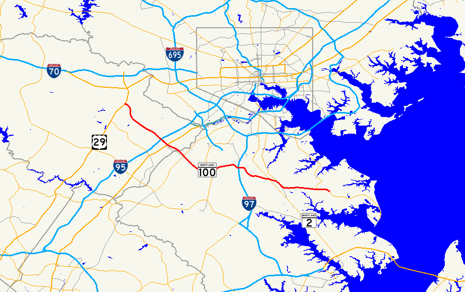 Map of Maryland Route 100